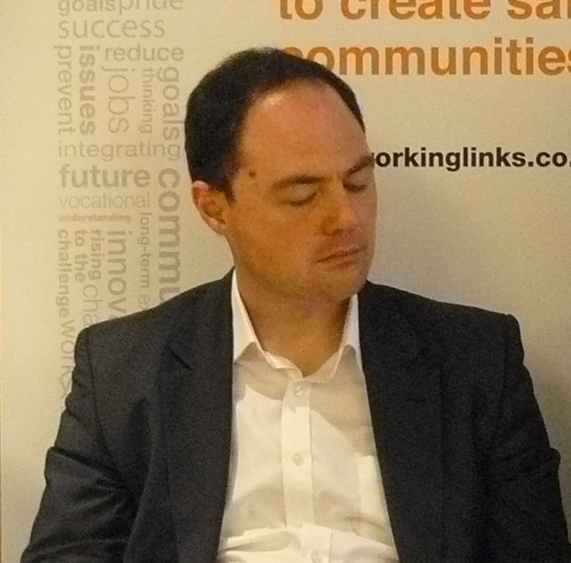 Policy Exchange Conservative Conference Fringe Event: Gone soft? What is behind the rehabilitation revolution?